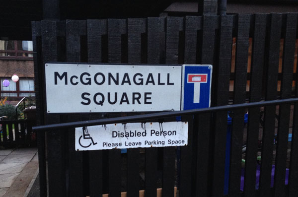 Picture of McGonagall square in Dundee.